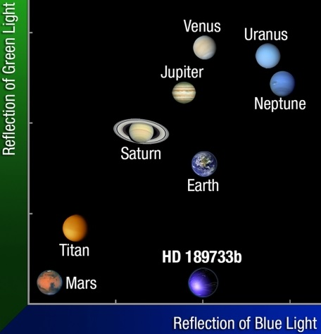 This plot compares the colors of planets in our solar system to exoplanet HD 189733b. The exoplanet's deep blue color is produced by silicate droplets, which scatter blue light in its atmosphere. Image Credit: NASA, ESA, and A. Feild (STScI)